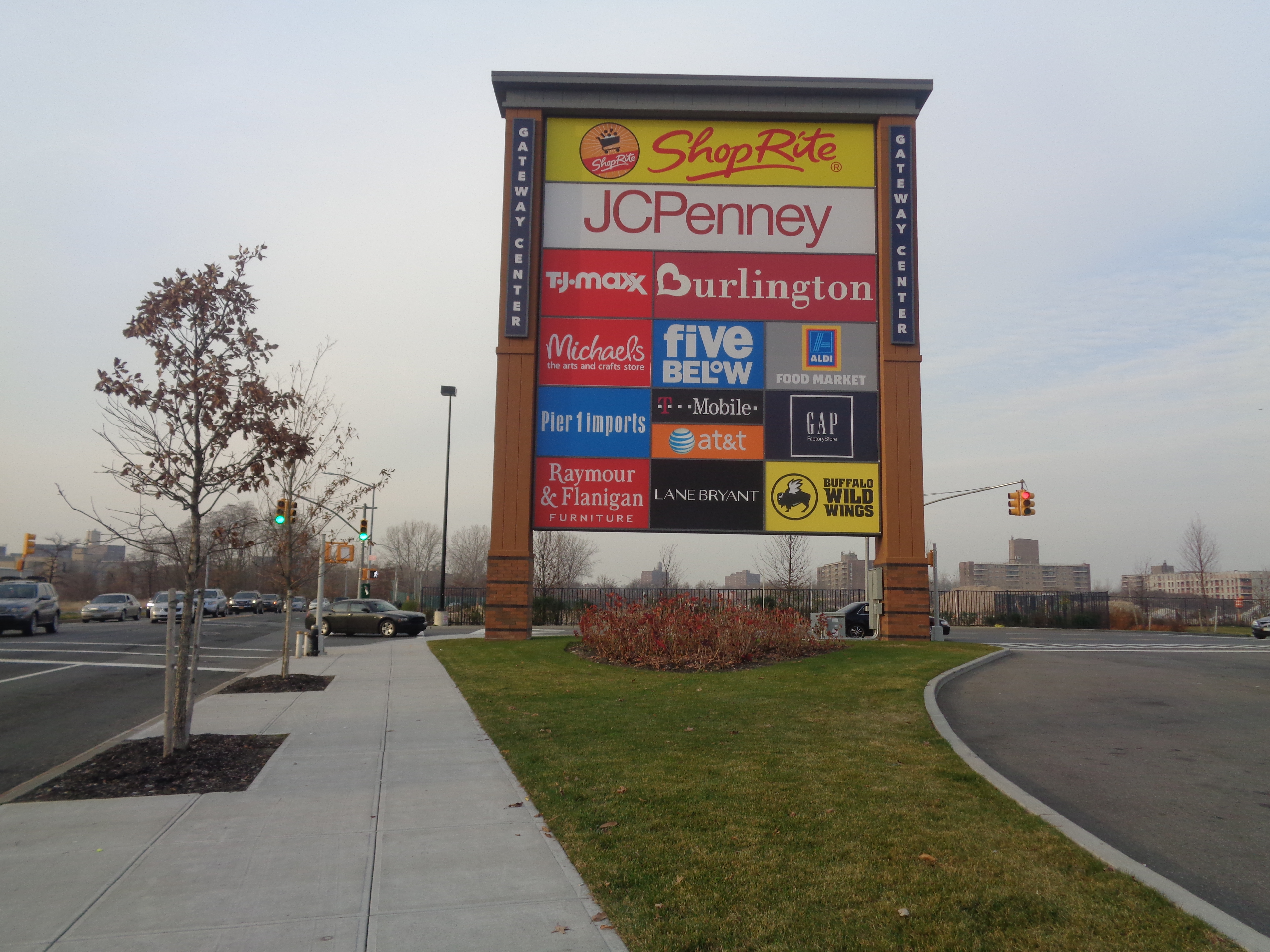 The entrance sign at the bus terminal of Gateway Center in Brooklyn.